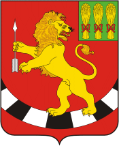 Coat of Arms of Bashmakovsky rayon (Penza oblast)